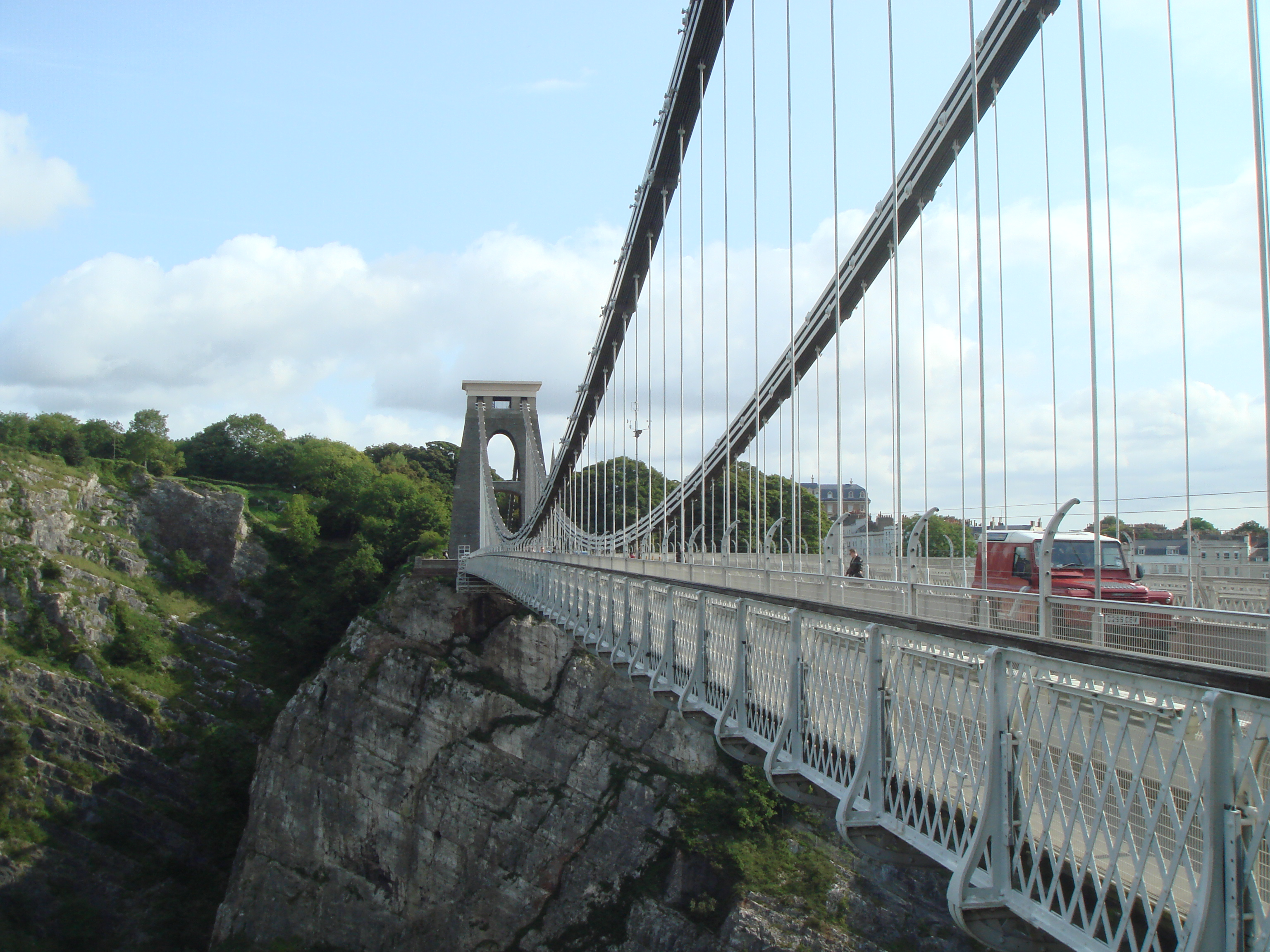 Bristol Clifton Suspension Bridge